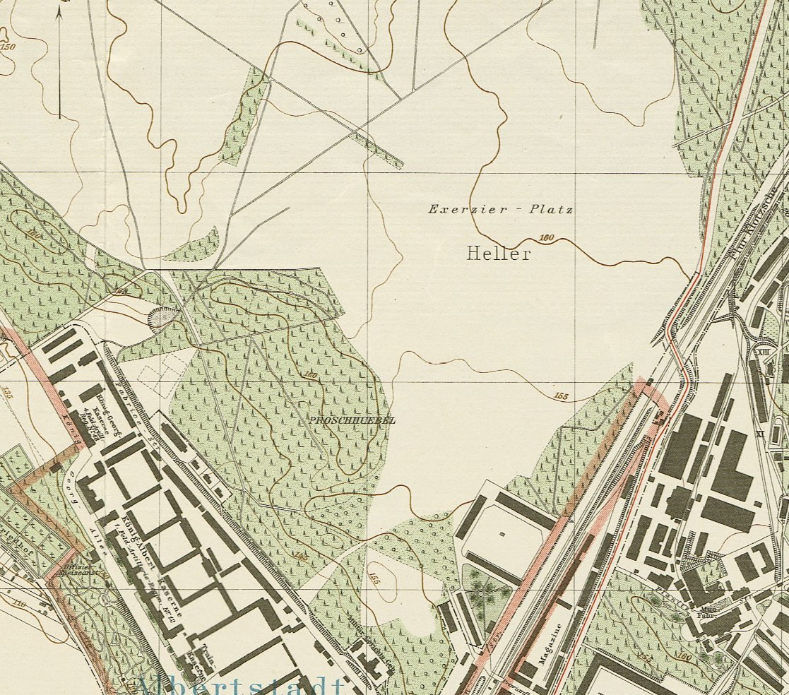 Albertstadt North of Dresden in 1917, section of a outreach map of Dresden